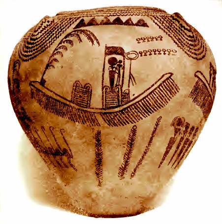 Predynastic boat as depicted on pottery vase in "Ancient Egyptian Ships and Shipping" by William F. Edgerton. Private Edition as distributed by University of Chicago Libraries, reprinted from American Journal of Semitic Languages and Literature, Vol. XXXIX, No.2, January, 1923.